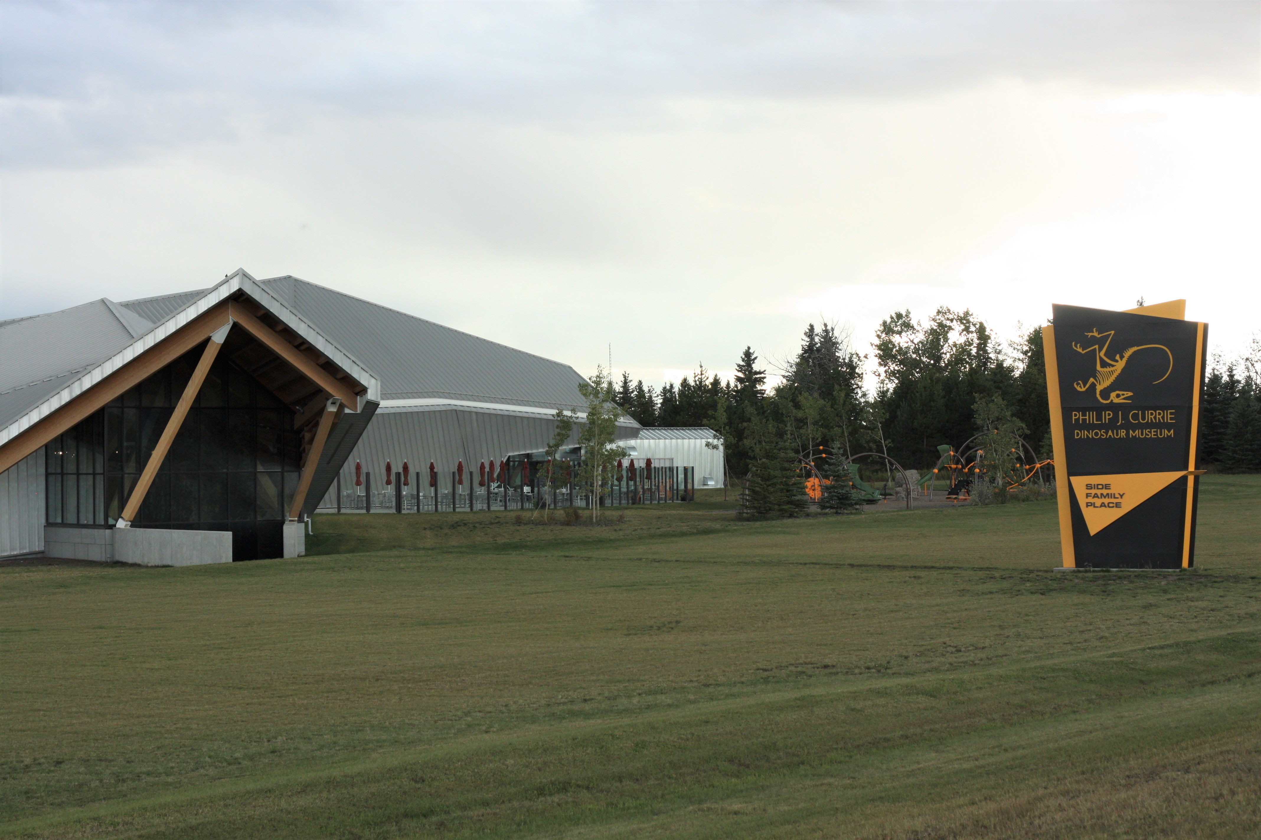 Exterior of Philip J. Currie Dinosaur Museum as seen from highway